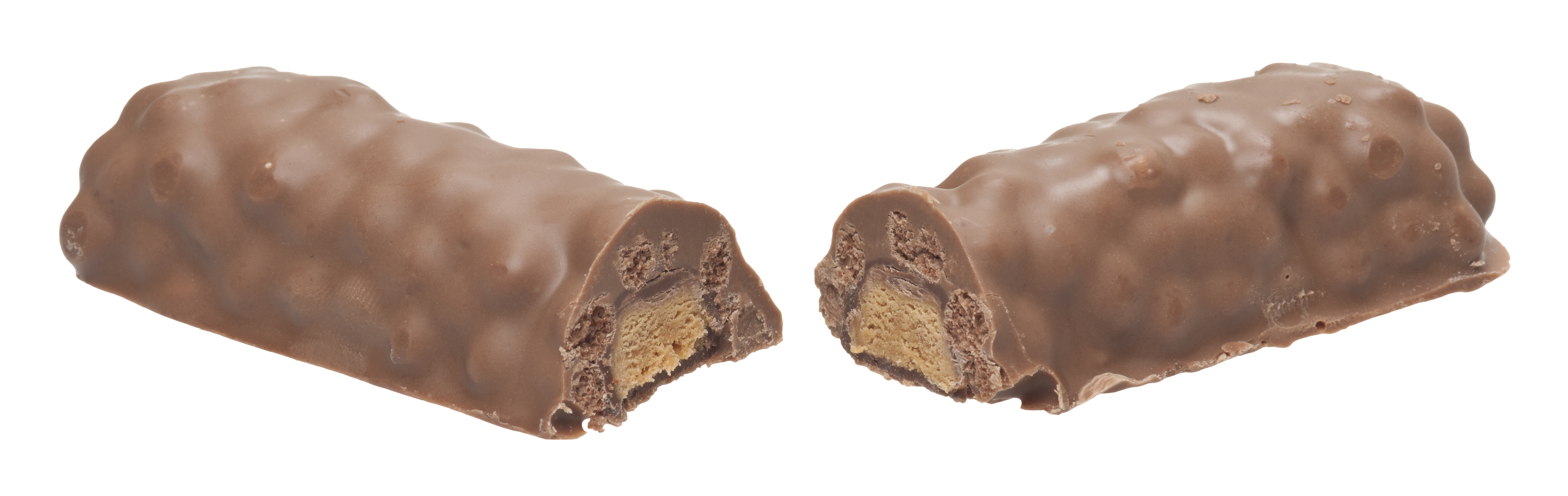 An Australian Chokito candy bar that has been split in half.